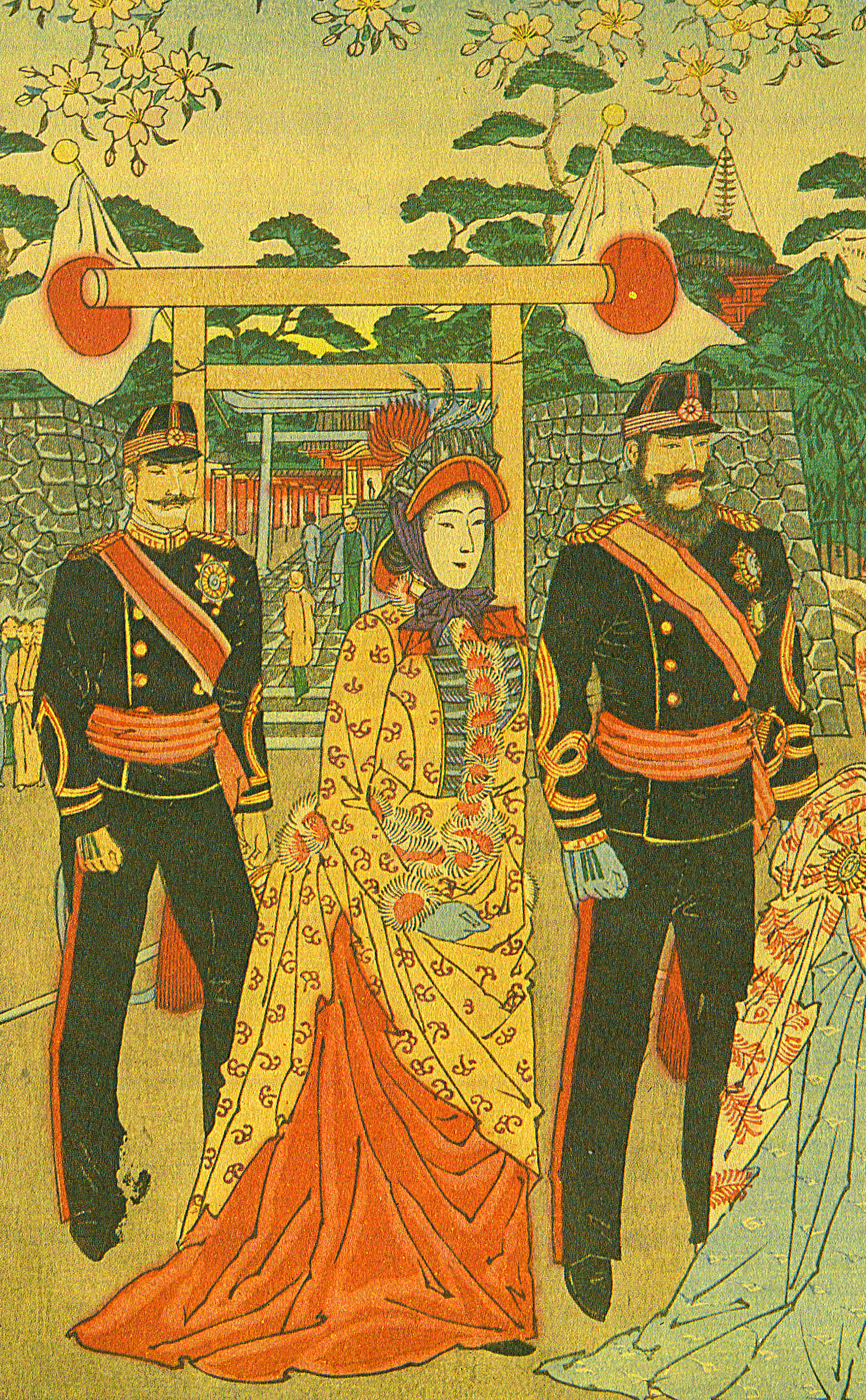 Japanese of ca. the late 1880s dressed largely in Western clothing styles (the women with bustles on the back of their dresses -- see also File:1887-Japanese-women-Western-Bustled-fashions.jpg). Japanese flags wave on a gate in the background.